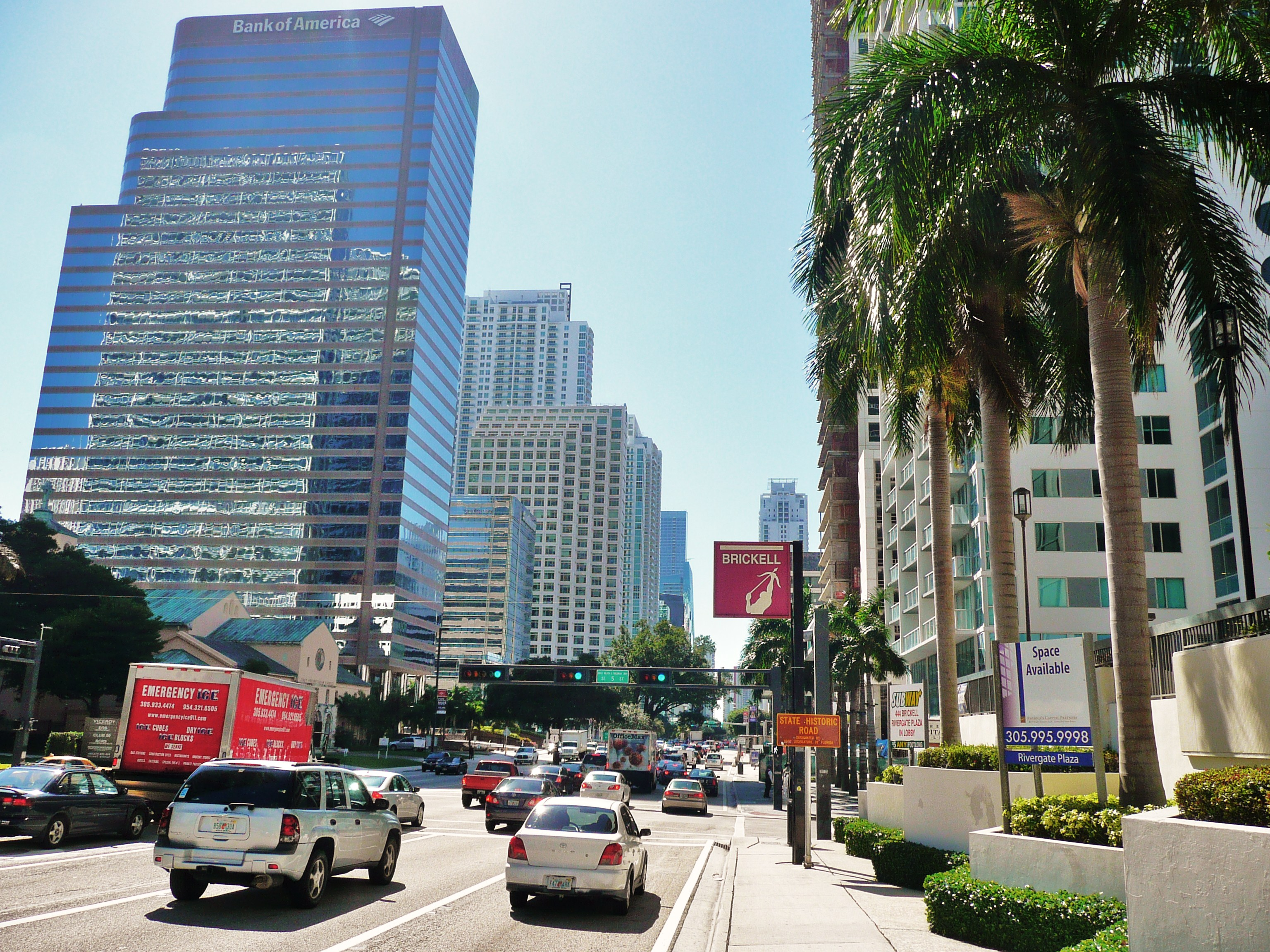 Digital photo taken by Marc Averette. Brickell Avenue in Downtown Miami's Brickell Financial District.